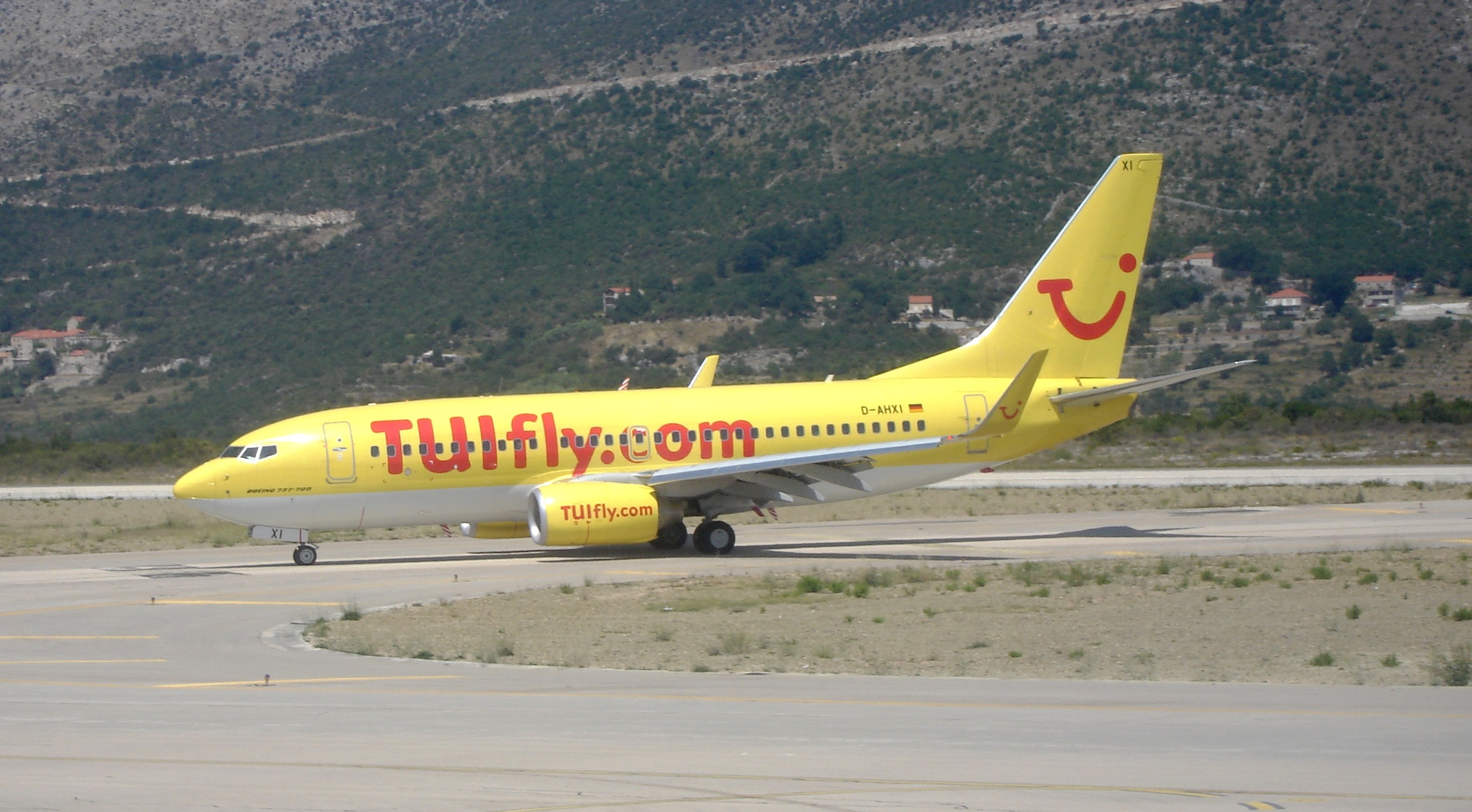 TUIfly Boeing 737-700 D-AHXI at Dubrovnik Airport, Croatia.